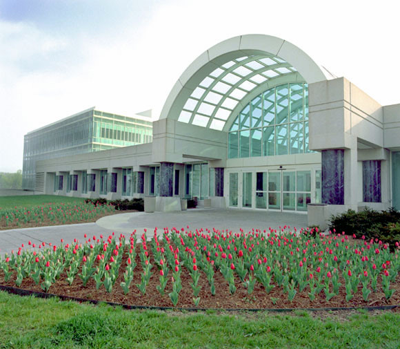 The entrance to the Central Intelligence Agency's headquarters, circa the late 1990s or early 2000s.